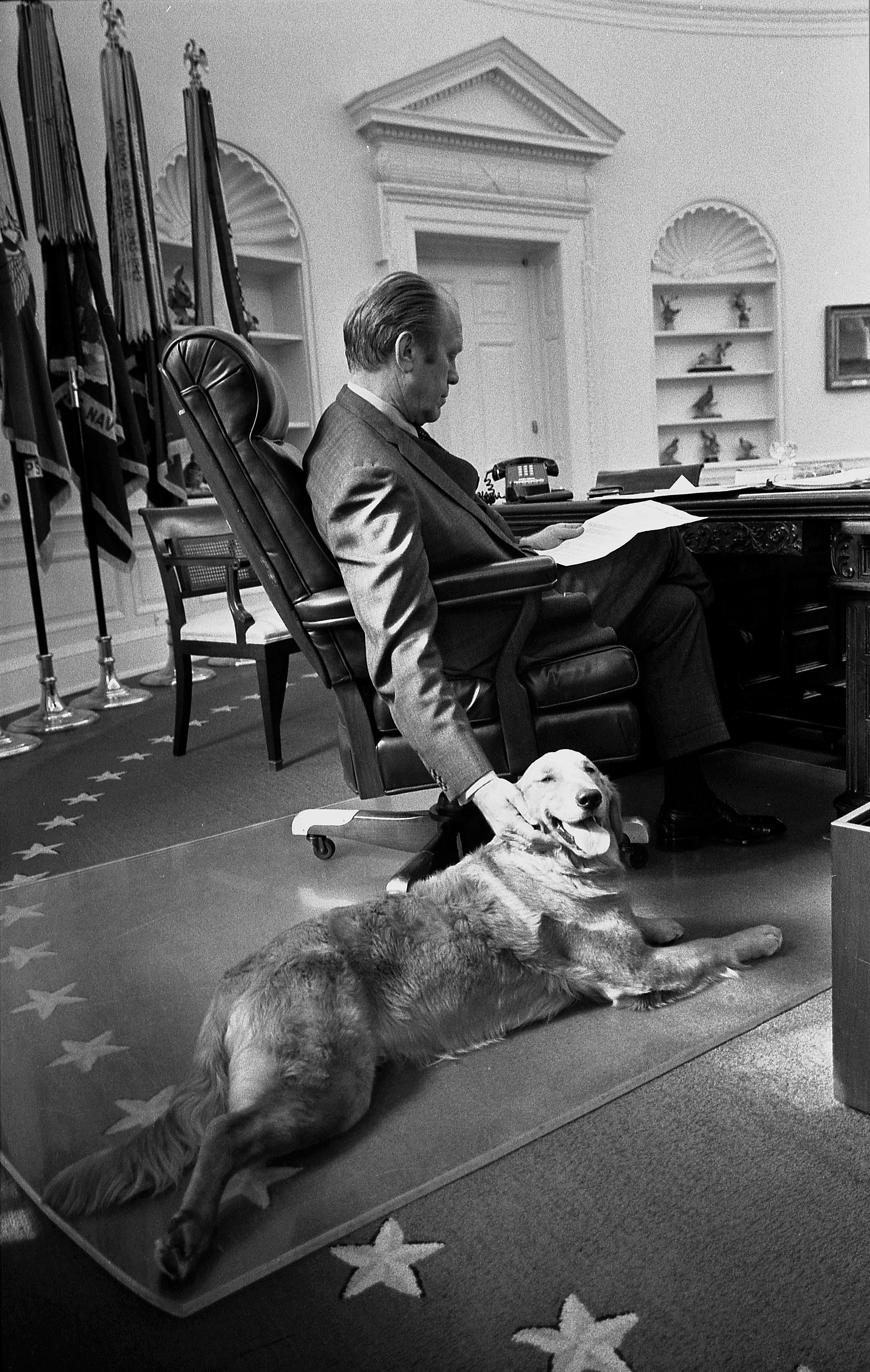 Photograph of President Gerald R. Ford and his golden retriever, Liberty, in the Oval Office.